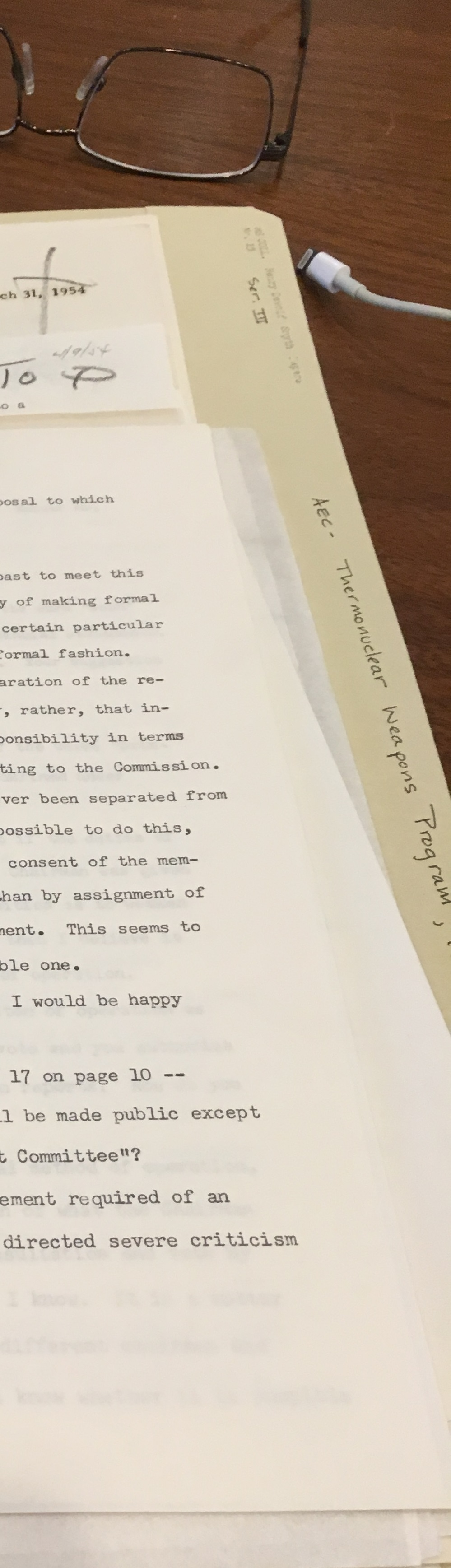 A researching inspecting a folder from the Papers of Henry DeWolf Smyth at the library of the American Philosophical Society, Philadelphia. This particular folder portion relates to Smyth's time on the Atomic Energy Commission and matters concerning the development of the hydrogen bomb.